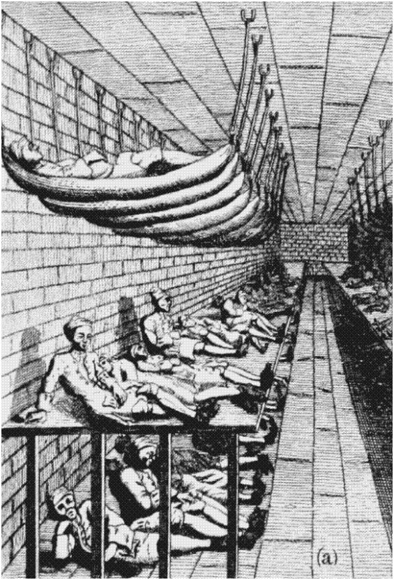 The sick men's ward in the Marshalsea prison, London, 1729.